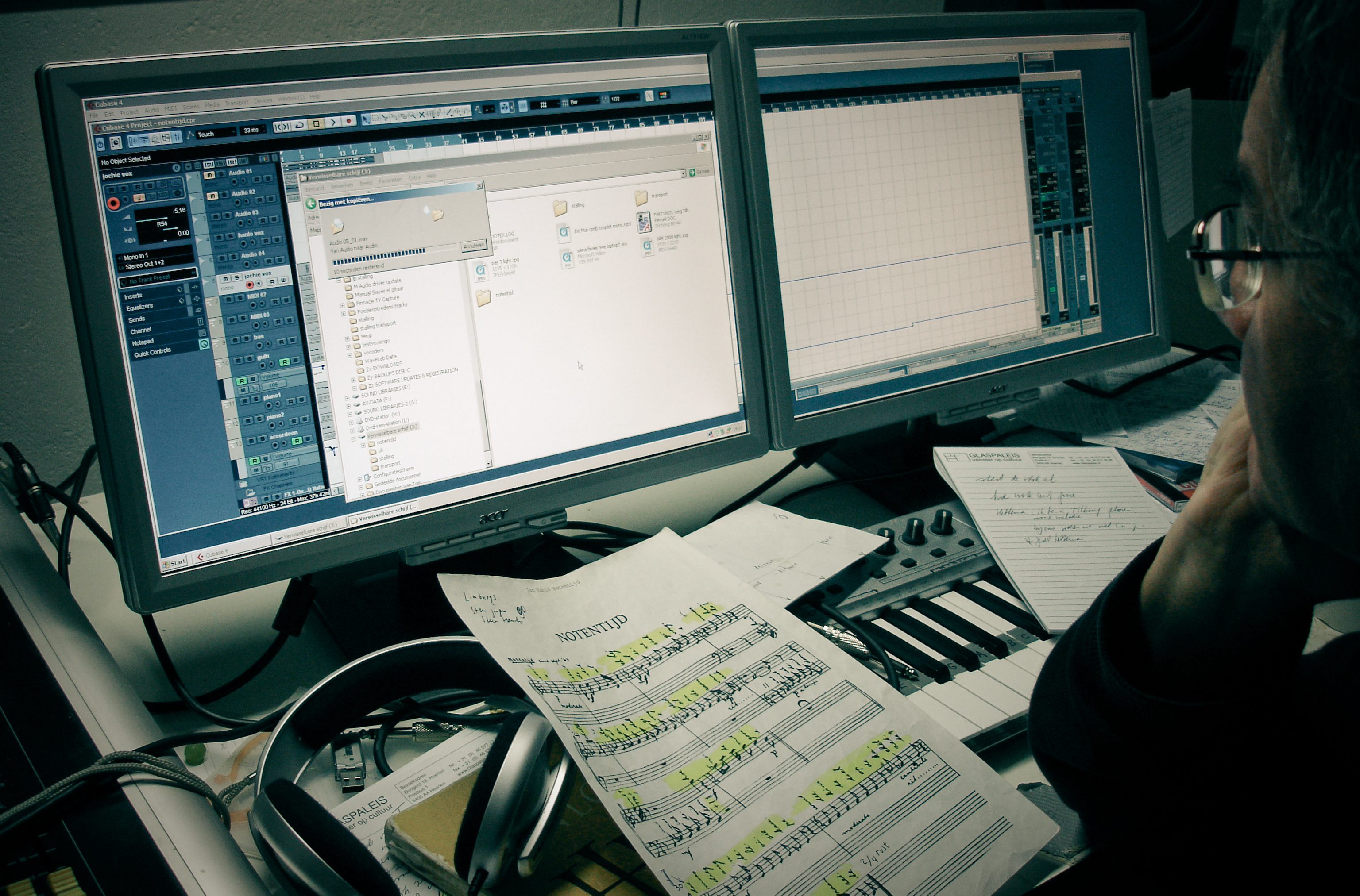 “rendering audio @Tom America” Tags: Tom America Cubase screen DAW audio studio